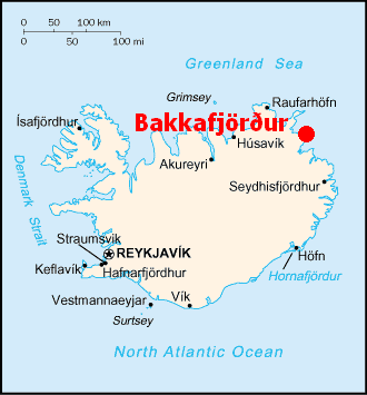 Modified from US Gov't map, added label.